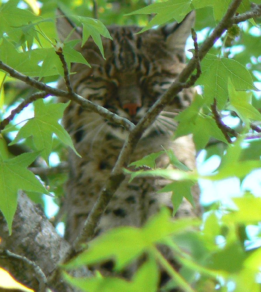 Captive bobcat in sweet-gum tree